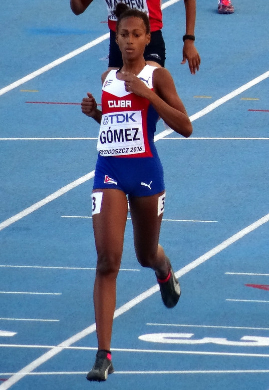 2016 IAAF World U20 Championships in Bydgoszcz, 400m women qualifications